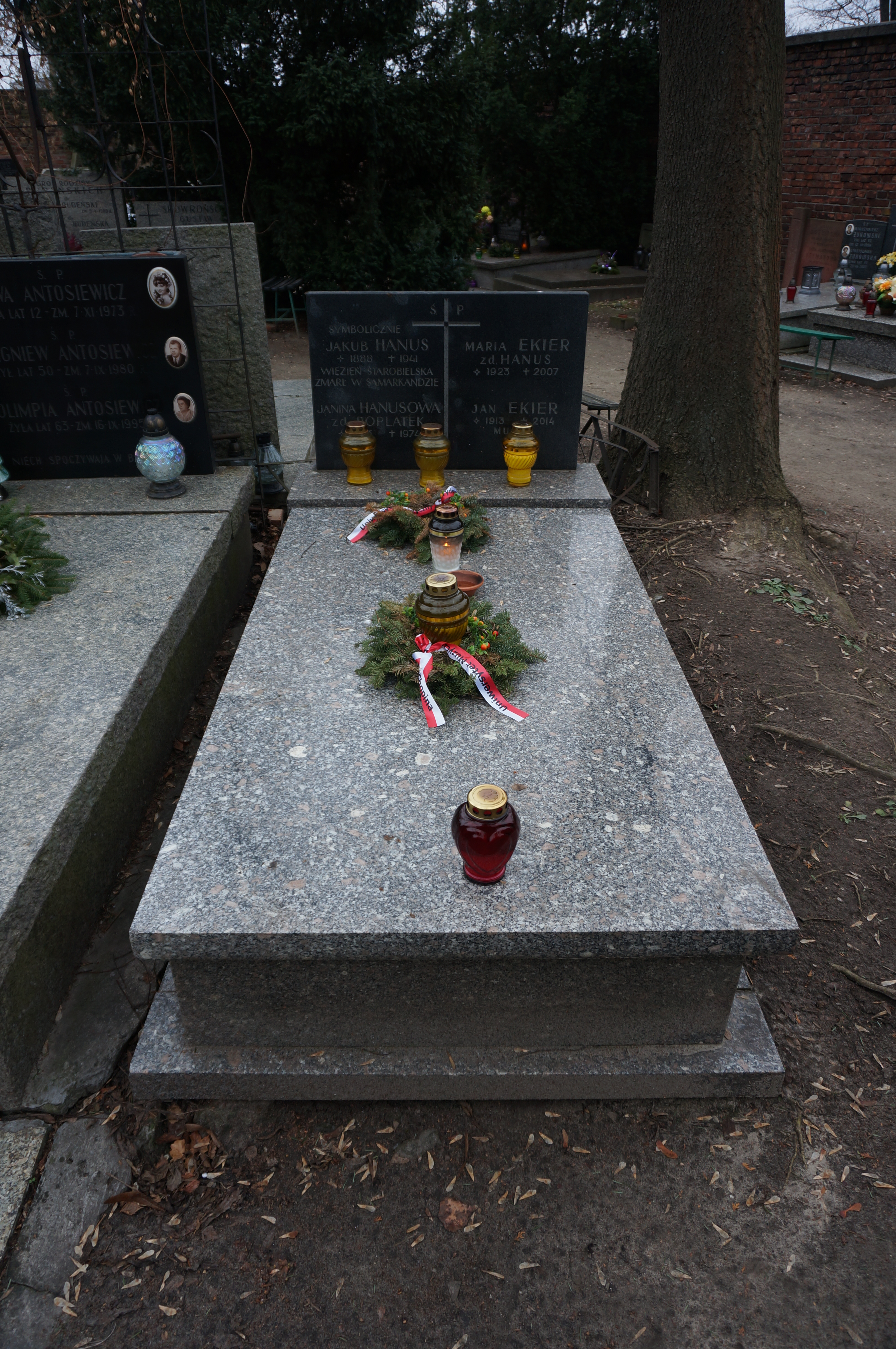 The grave of Jan Ekier at the Powązki Cemetery (section e, row 5, grave 2)